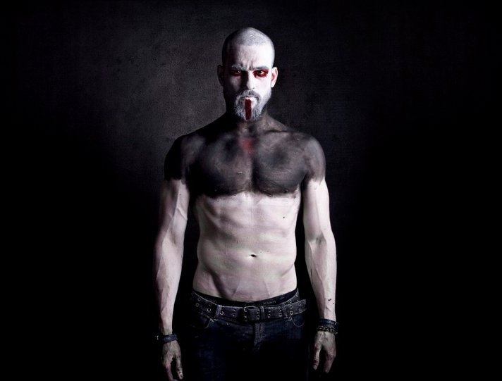 ZMarr of Combichrist